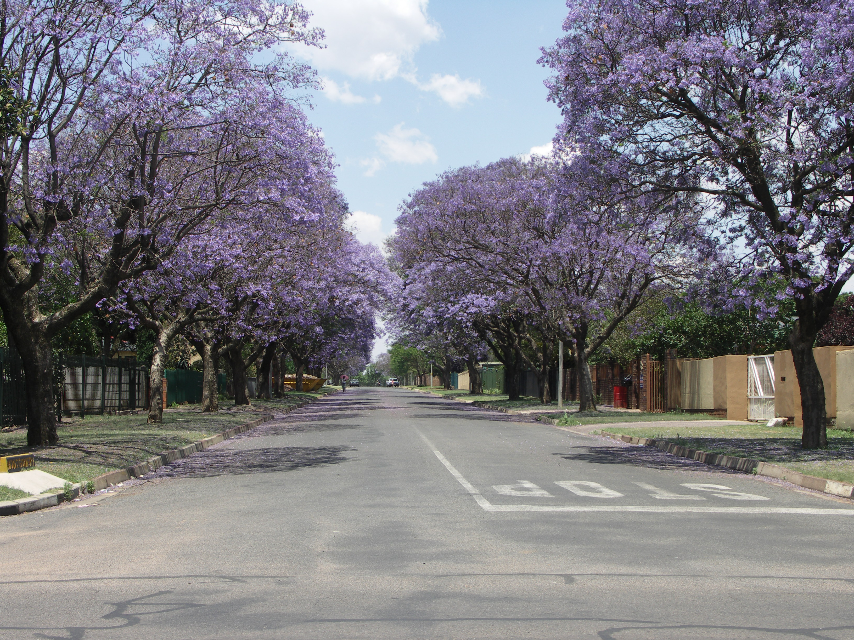 Tree lined street in Witbank, South Africa